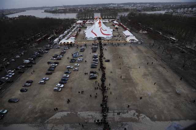 Cirque Arlette Gruss